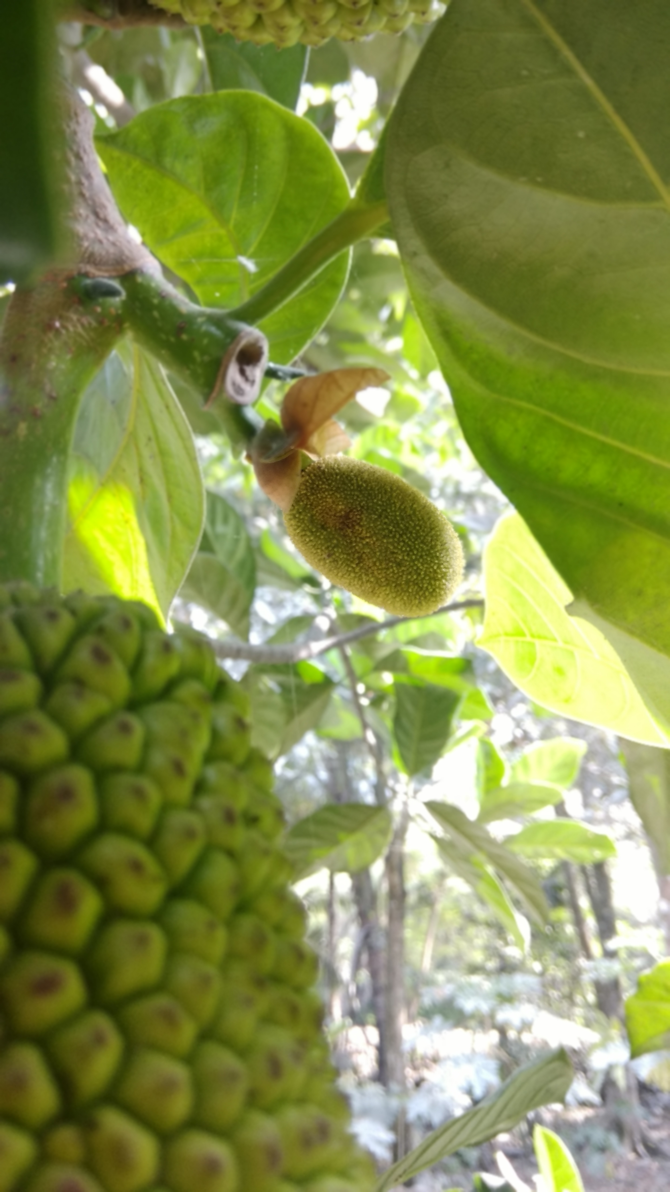 Artocarpus heterophyllus, male inflorescens, 2019, Indonesia